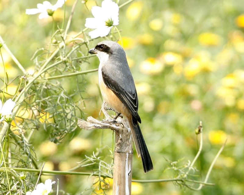 Grey_backed_shrike_(Lanius_tephronotus_tephronotus).